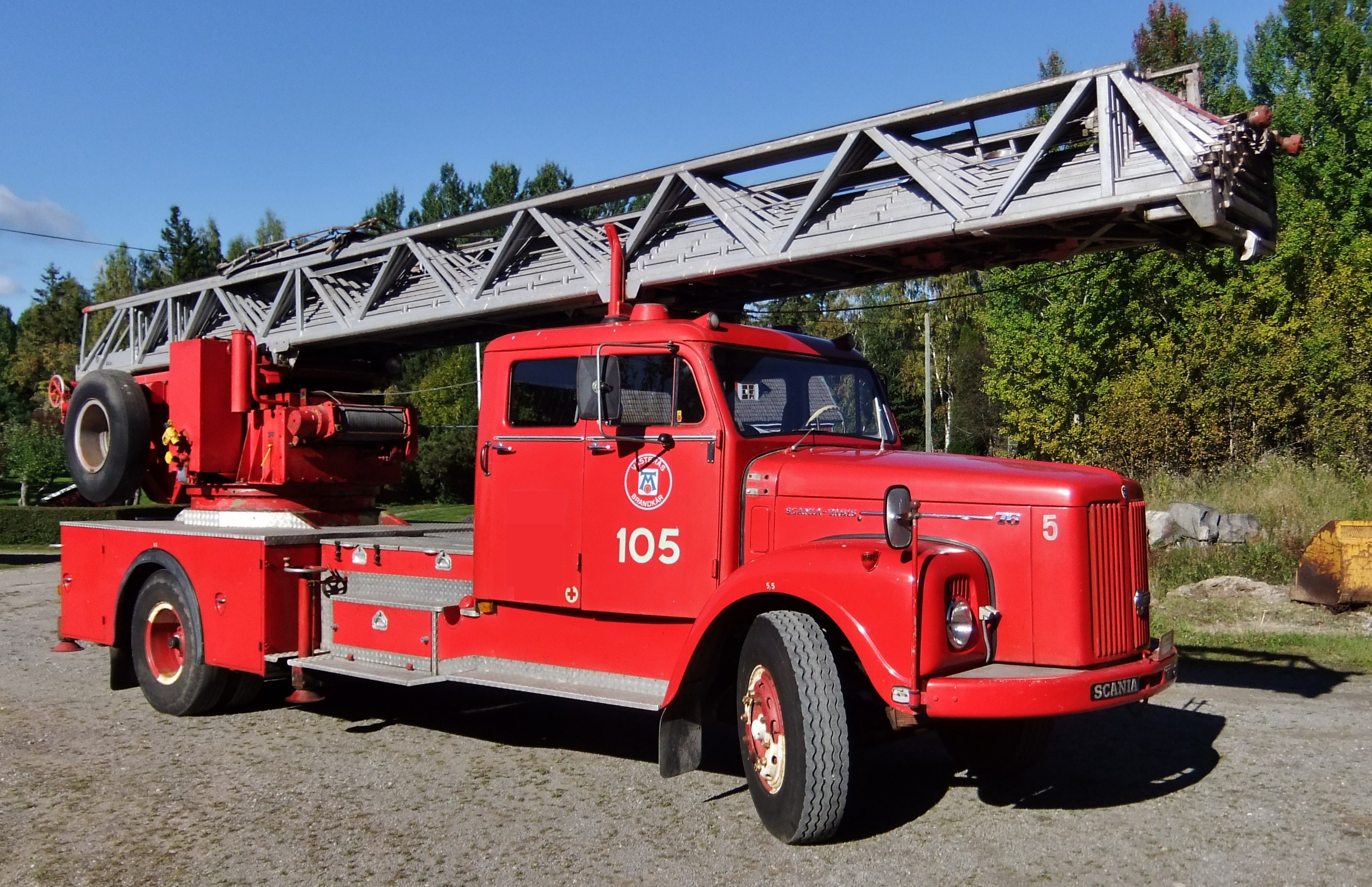 Turntable ladder Scania 1965, 46 (44+2) meter, Sweden